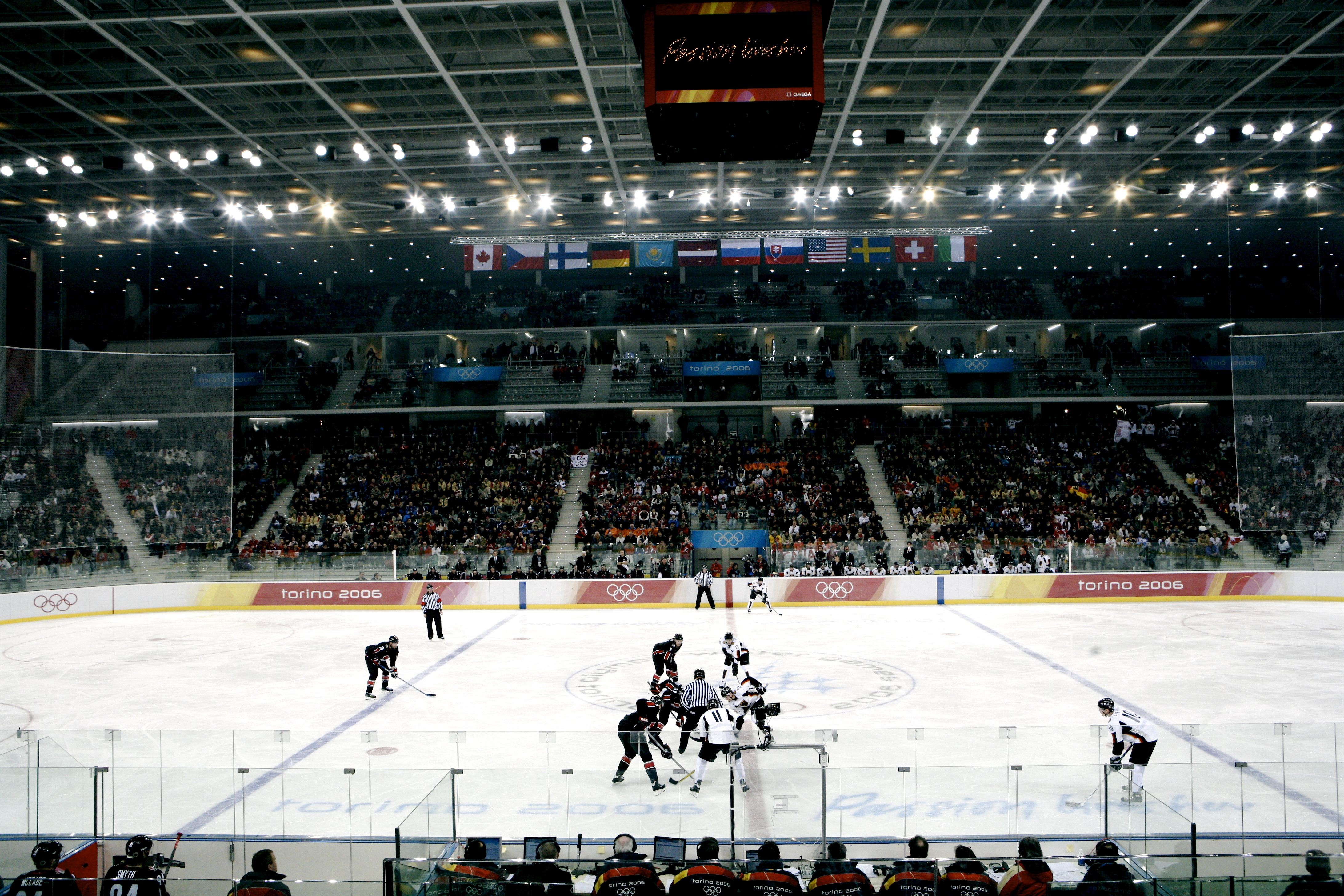 Canada vs Germany match, Winter Olympics 2006.